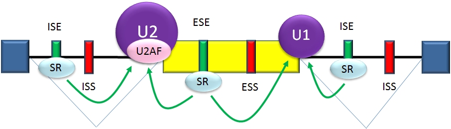 Generalized model of splicing activation. Splicing activator proteins (mostly SR proteins) bind to splicing enhancers in exons (ESE) and introns (ISE). They assist in the binding of U1 snRNP to the donor site and of U2AFs and U2 snRNP to the acceptor site and branch point. Information from: Black, Douglas L. (2003). "Mechanisms of alternative pre-messenger RNA splicing". Annual Reviews of Biochemistry 72 (1): 291-336. Wang, Z; Burge, Cb (May 2008). "Splicing regulation: from a parts list of regulatory elements to an integrated splicing code" (Free full text). RNA (New York, N.Y.) 14 (5): 802–13. ISSN 1355-8382. PMID 18369186. PMC: 2327353.